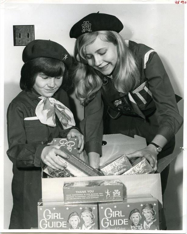 Getting ready to sell cookies, 1969